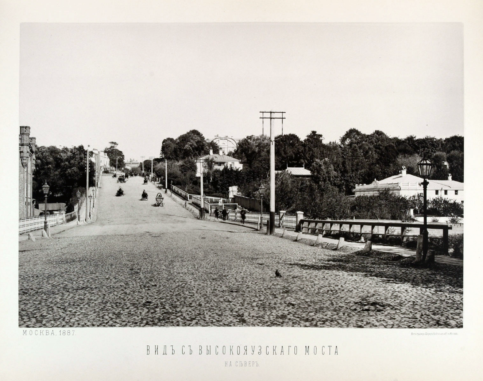 Plate 18: View of Garden Ring north of the Yauza River bridge.